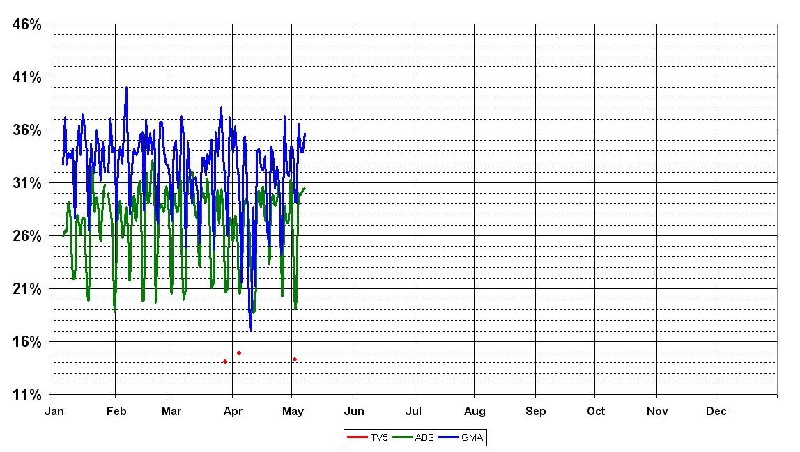 Primetime television ratings for 2009 in Mega Manila, Philippines according to AGB Nielsen: ABS-CBN: Green GMA: Blue TV5: Red The charted points represented the TV program that had the highest rating for that station for that day.